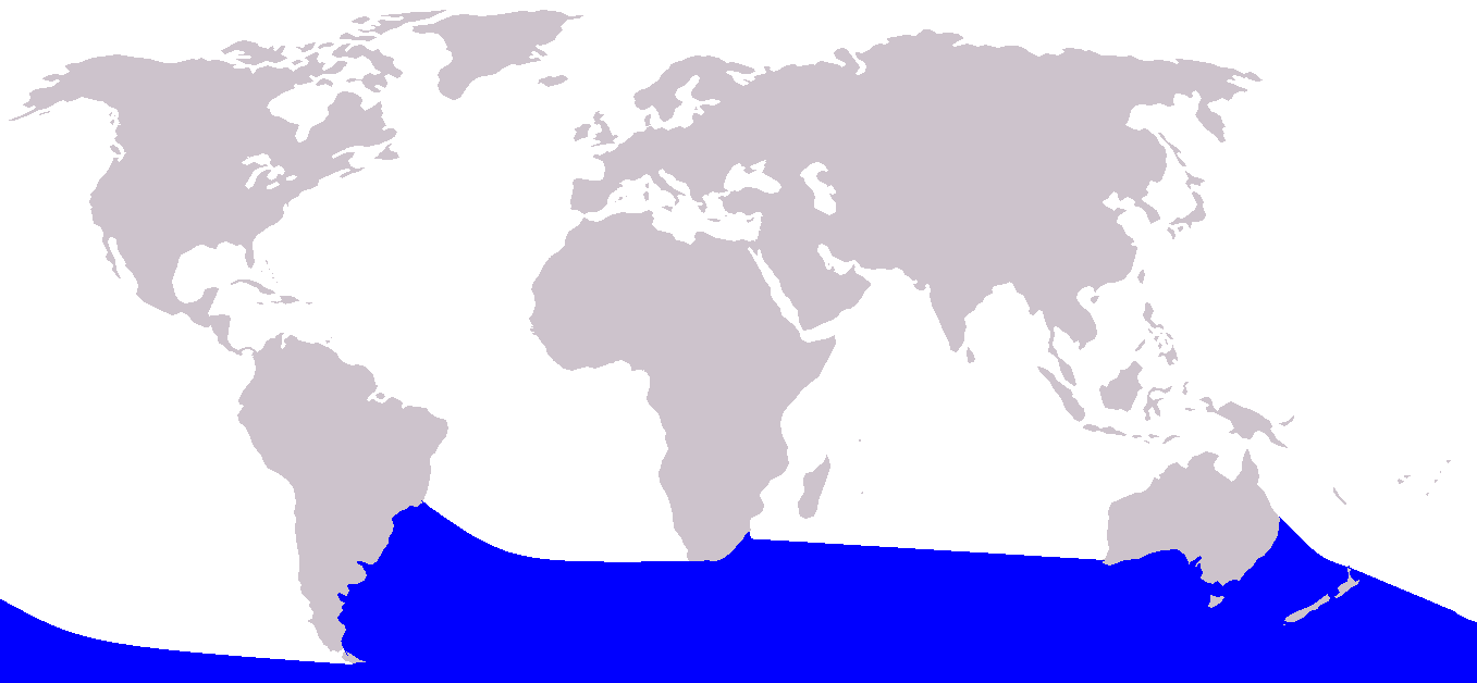 Distribution of Berardius arnuxii